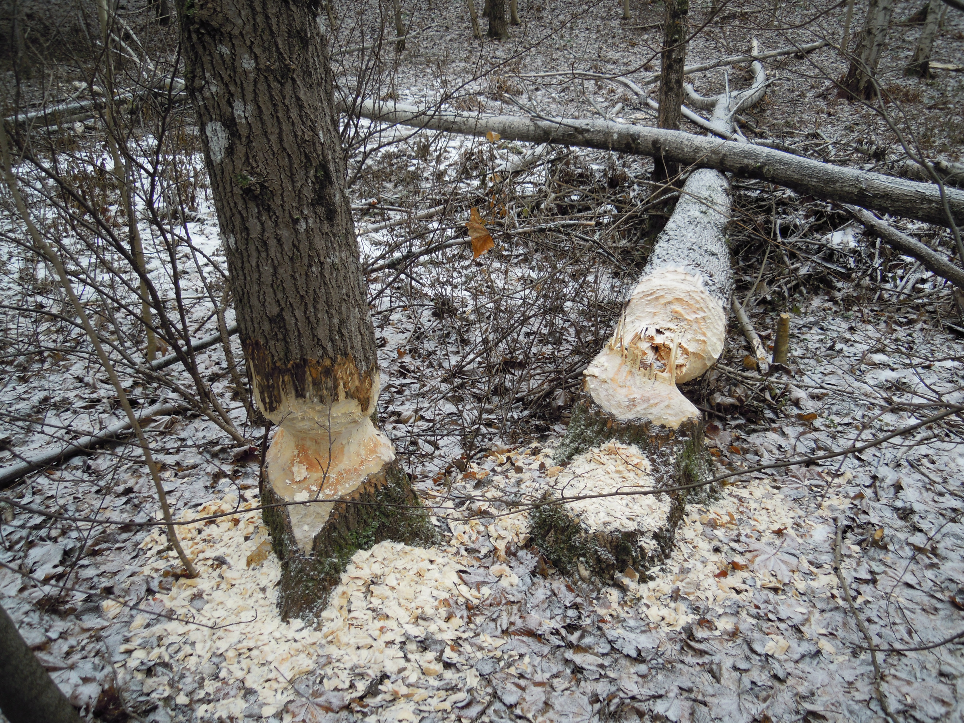 Beaver working at Farris, Norway